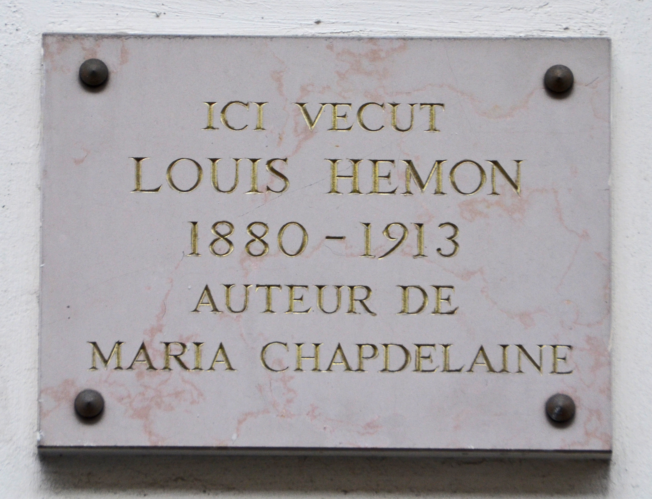 Read about him here